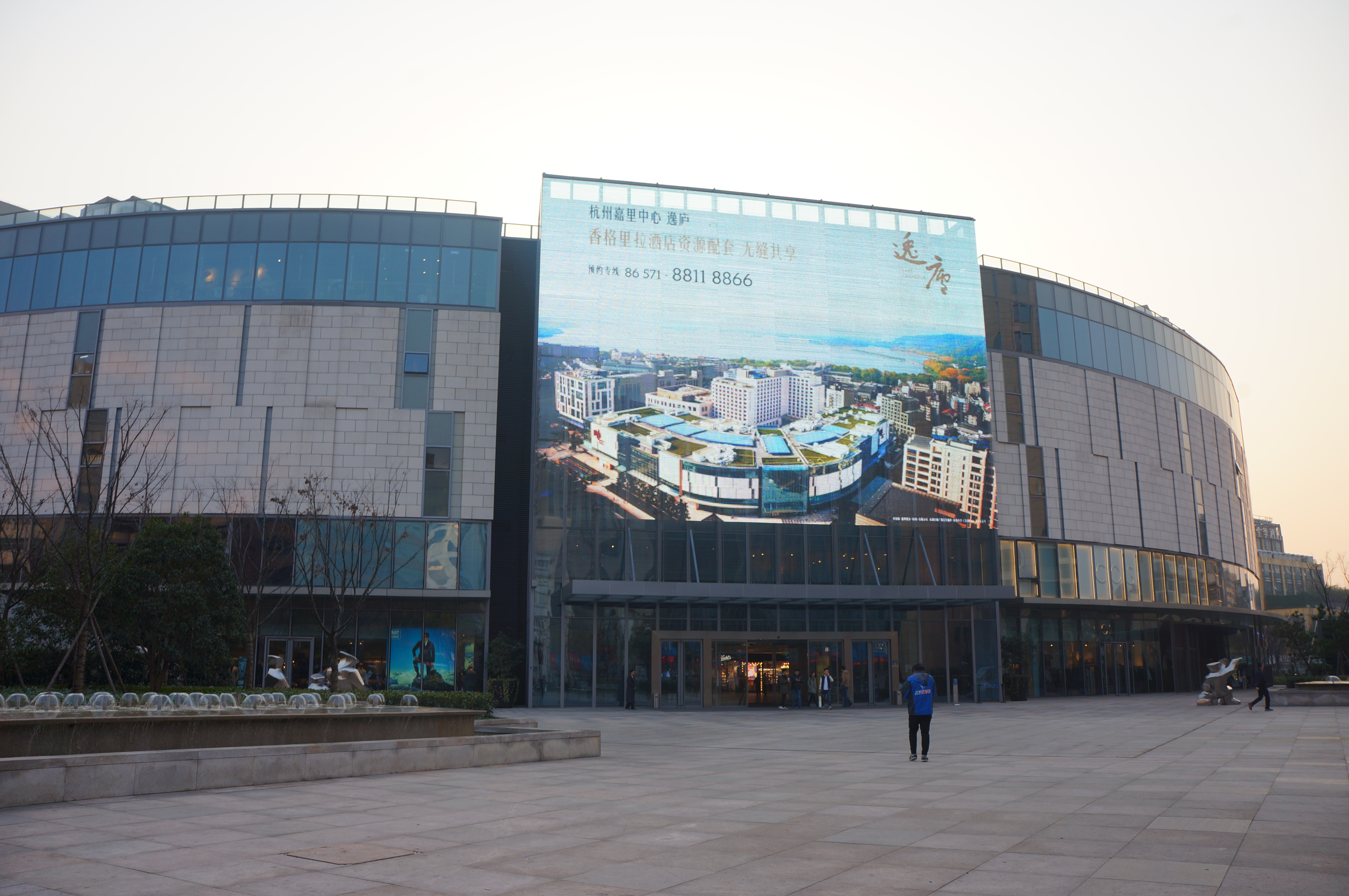 201712 Hangzhou Kerry Centre South